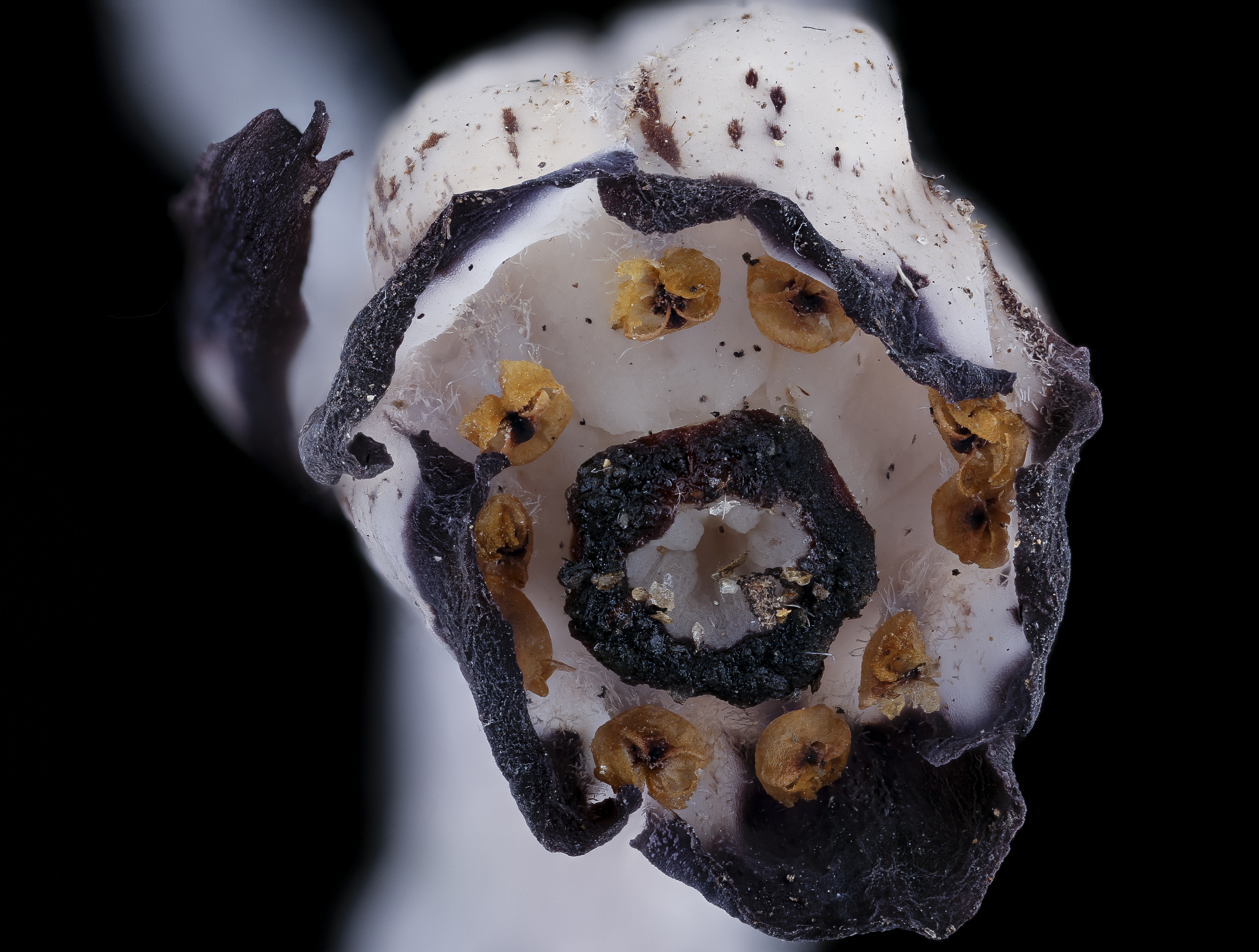 Ghost Pipe, nice name for the parasitic plant. Who knew that it is now considered to be part of the Heath family with kinship to blueberries and cranberries. Pollinators go to the ghost pipe too. Plant and photo by Helen Lowe Metzman. 23:35, 12 February 2020 (UTC)23:35, 12 February 2020 (UTC) 0 23:35, 12 February 2020 (UTC)23:35, 12 February 2020 (UTC) All photographs are public domain, feel free to download and use as you wish. Photography Information: Canon Mark II 5D, Zerene Stacker, Stackshot Sled, 65mm Canon MP-E 1-5X macro lens, Twin Macro Flash in Styrofoam Cooler, F5.0, ISO 100, Shutter Speed 200 We Are Made One with What We Touch and See We are resolved into the supreme air, We are made one with what we touch and see, With our heart's blood each crimson sun is fair, With our young lives each spring impassioned tree Flames into green, the wildest beasts that range The moor our kinsmen are, all life is one, and all is change. - Oscar Wilde You can also follow us on Instagram - account = USGSBIML Want some Useful Links to the Techniques We Use? Well now here you go Citizen: Best over all technical resource for photo stacking: Free Field Guide to Bee Genera of Maryland: Basic USGSBIML set up: USGSBIML Photoshopping Technique: Note that we now have added using the burn tool at 50% opacity set to shadows to clean up the halos that bleed into the black background from "hot" color sections of the picture. Bees of Maryland Organized by Taxa with information on each Genus PDF of Basic USGSBIML Photography Set Up: ftp://ftpext.usgs.gov/pub/er/md/laurel/Droege/How%20to%20Take%20MacroPhotographs%20of%20Insects%20BIML%20Lab2.pdf Google Hangout Demonstration of Techniques: or Excellent Technical Form on Stacking: Contact information: Sam Droege 301 497 5840